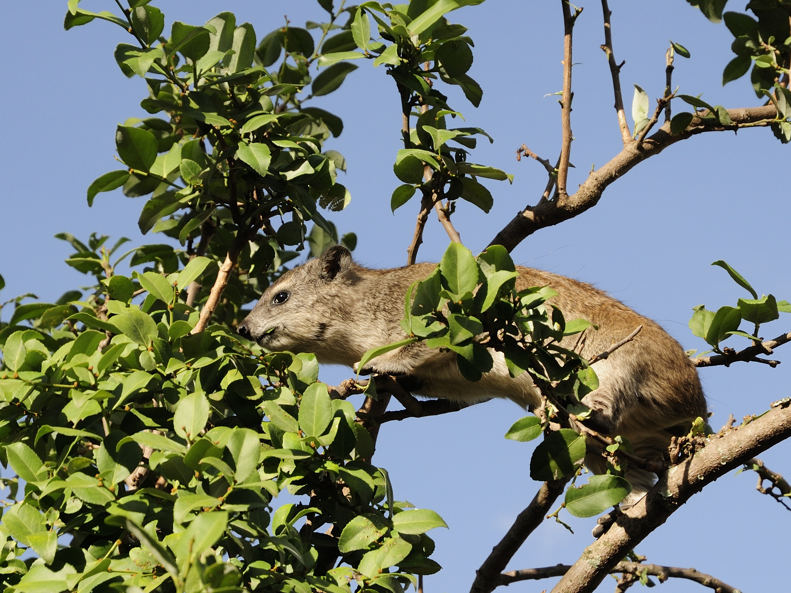 Heterohyrax brucei